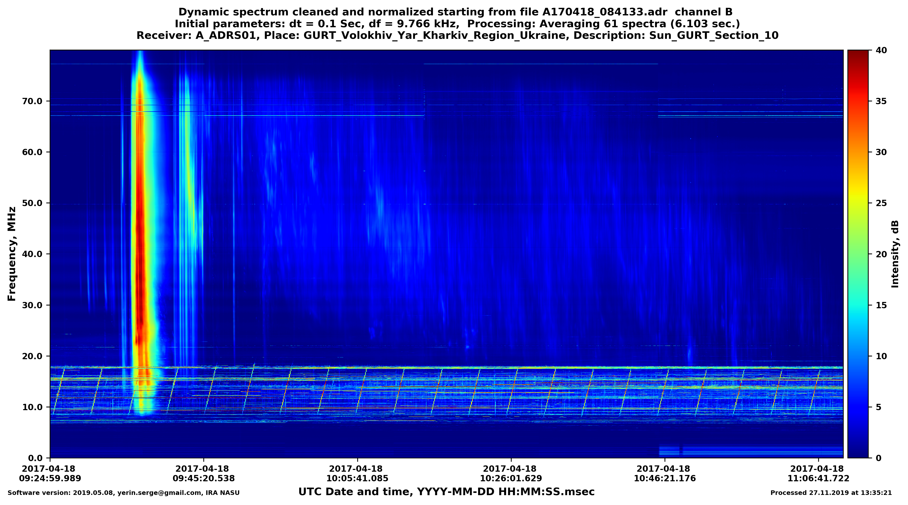 A group of Type III bursts, Type II and Type IV bursts observed during solar coronal mass ejection on 2017 April 18 at low-frequencies with GURT radio telescope subarray (see V. N. Melnik et al. 2019 ApJ 885, 78).